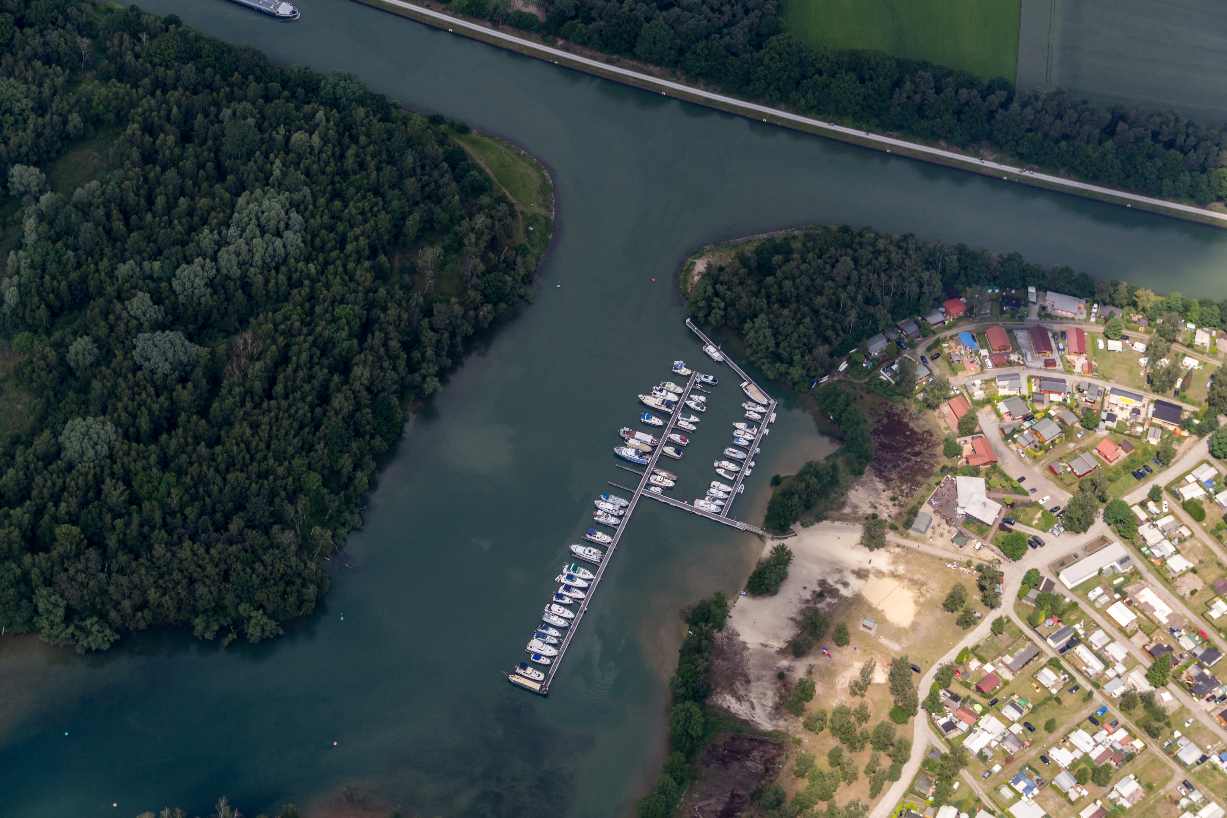 Haltern am See, North Rhine-Westphalia, Germany